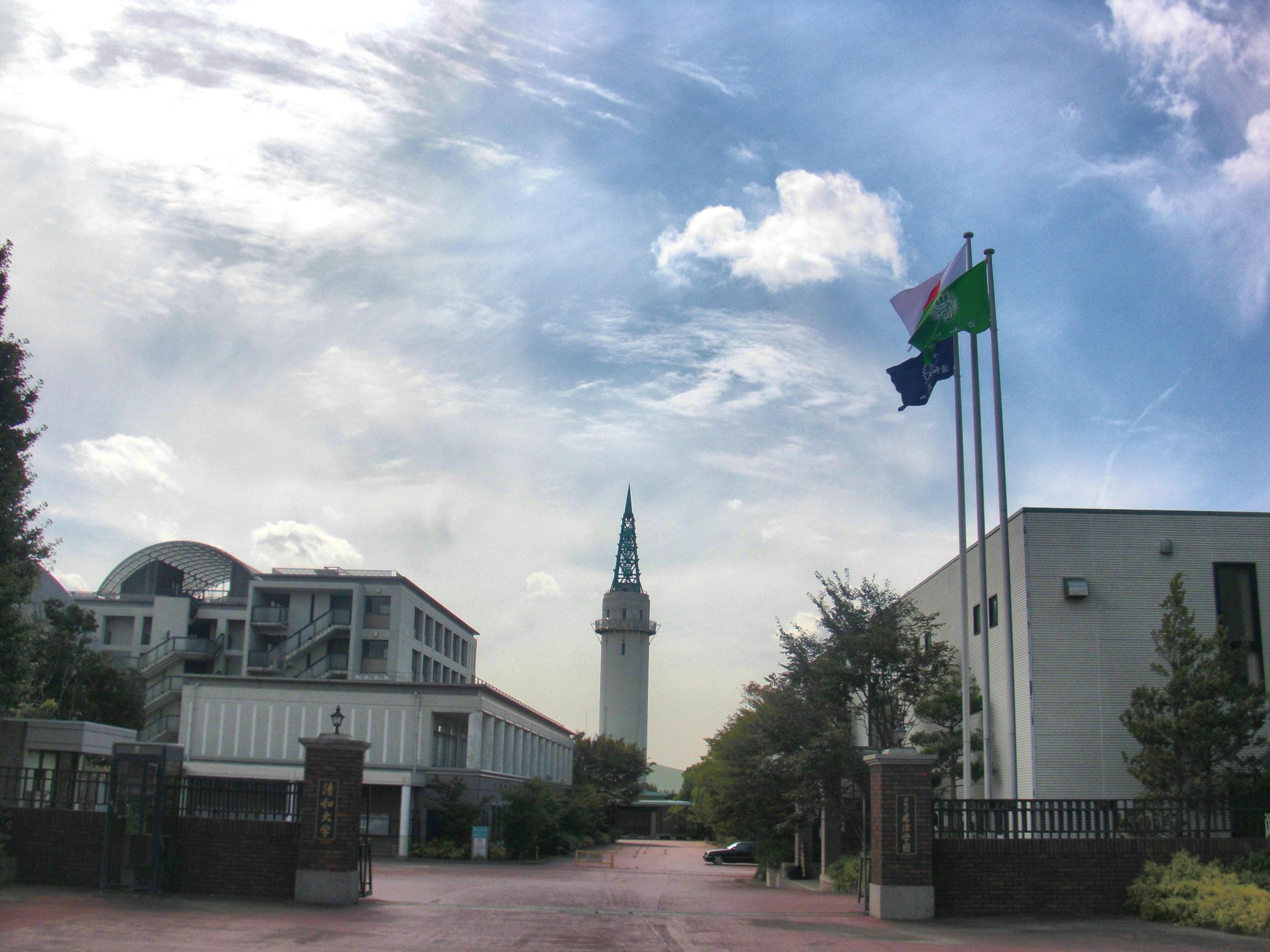 This is a gate of Seiwa University.